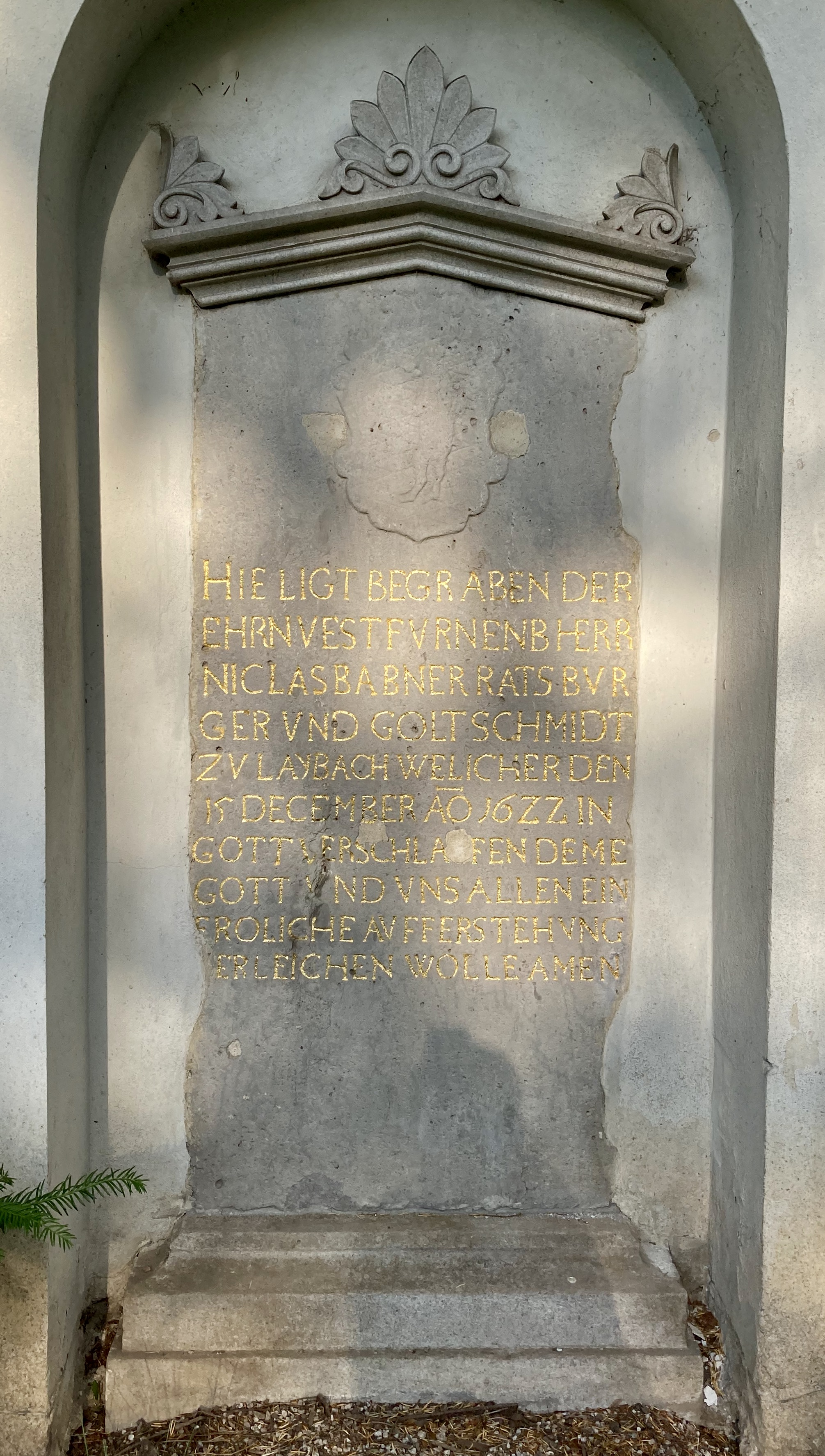 Tombstone of Niclas Babner at Navje in Ljubljana, town councillor and goldsmith, died 15 December 1622